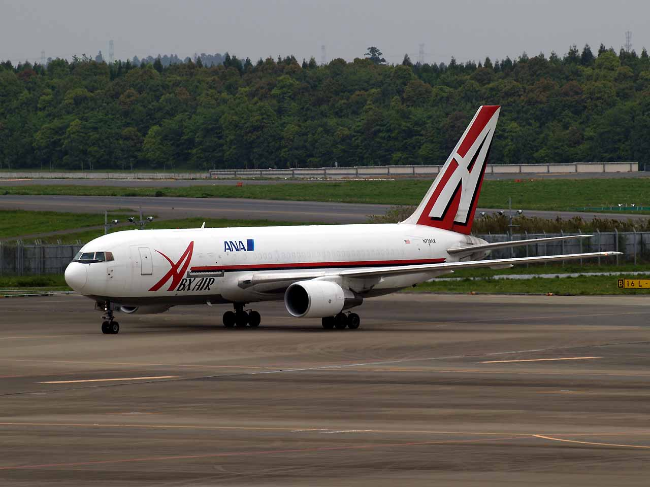 fleet of ABX Air. Model: B767-232 ex: N104DA Place: Narita International Airport: Narita City, Chiba Japan